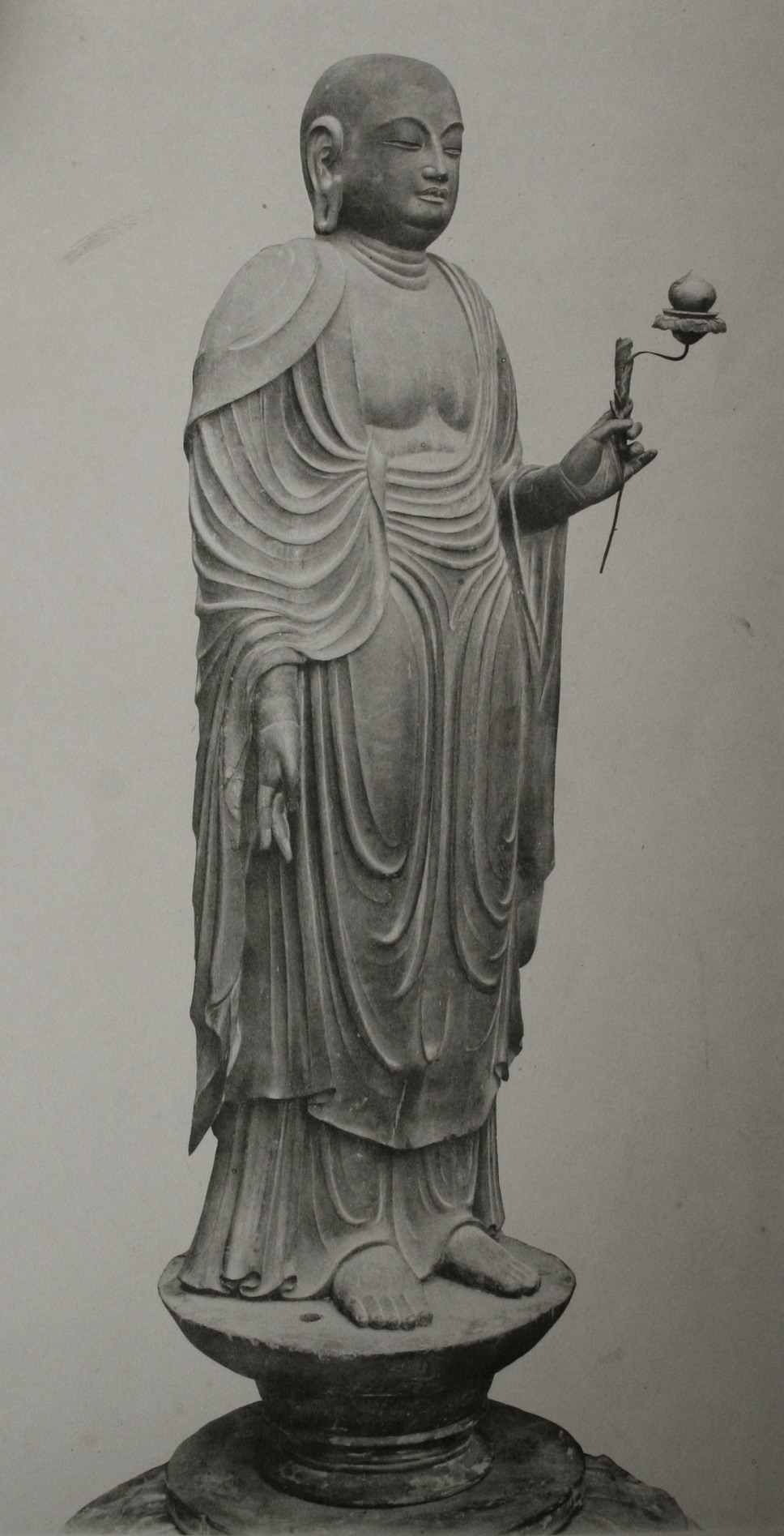 Jizō Bosatsu(Ksitigarbha), Wood, 172.7 cm (68.0 in) , Heian period, 9th century, Horyuji Great Treasure Gallery, Hōryū-ji, Ikaruga, Nara, Japan